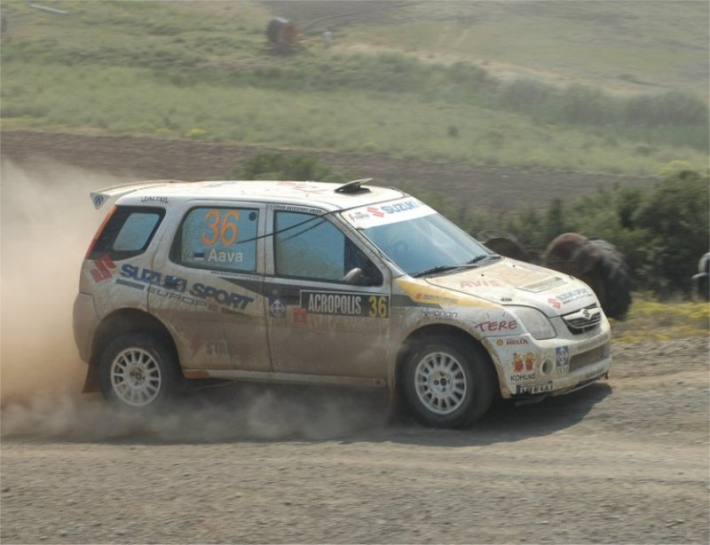 Urmo Aava driving a Suzuki Ignis S1600 at the 2005 Acropolis Rally.